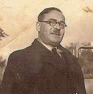 Alexander Zisel Macht, Lithuanian chess champion (before WWII), Lithuanian and Jewish banker